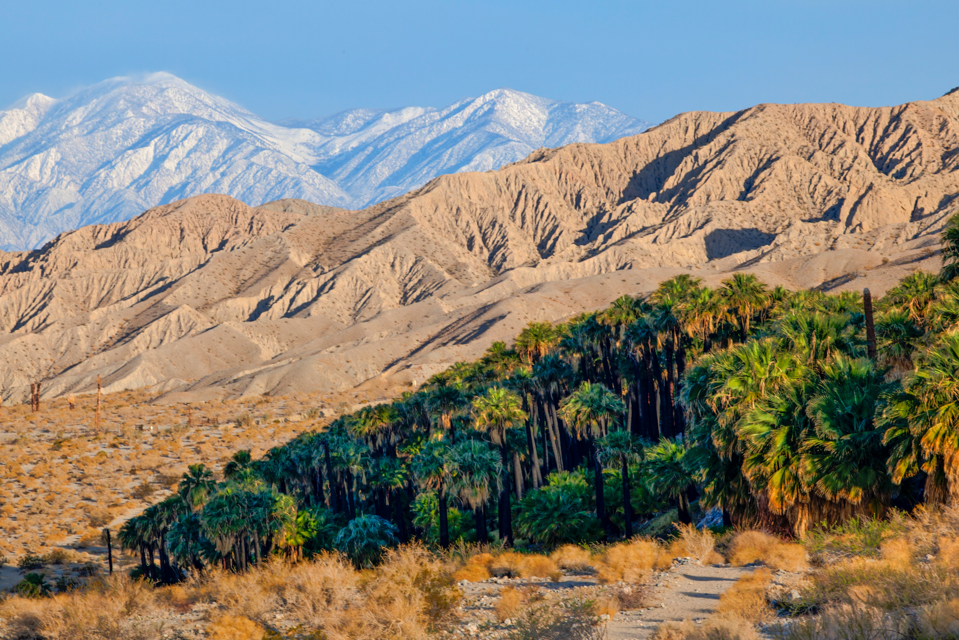 2012 file PHOTO, new Sand to Snow National Monument, CA